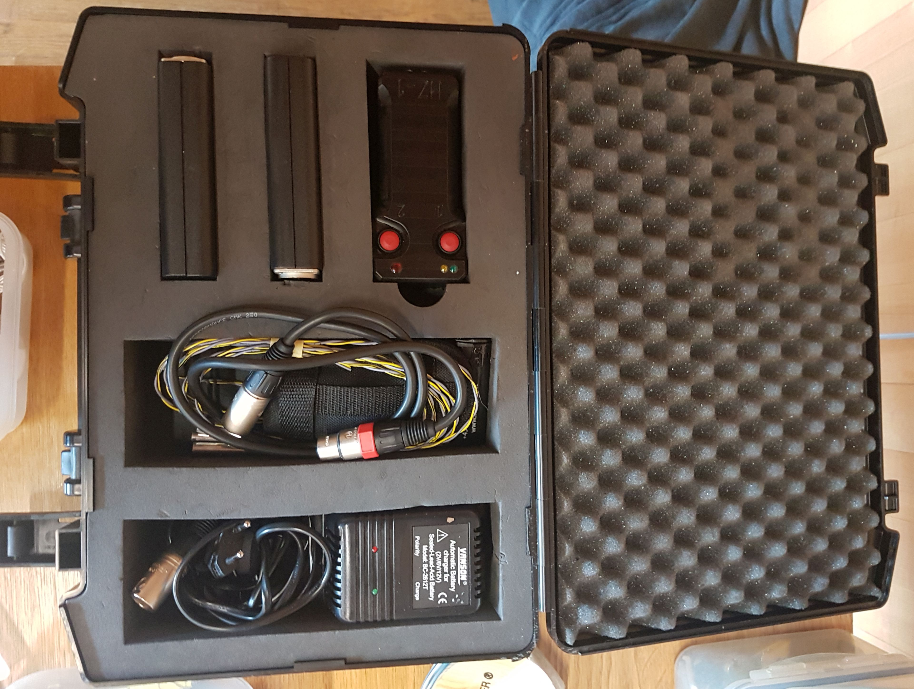 EXPLO-Blasting machine with two-button control, also approved for avalanche blasting from the helicopters.